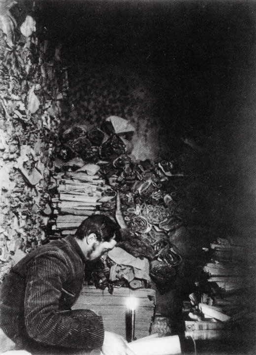 Paul Pelliot examining manuscripts in Cave 17 at Mogao Caves.